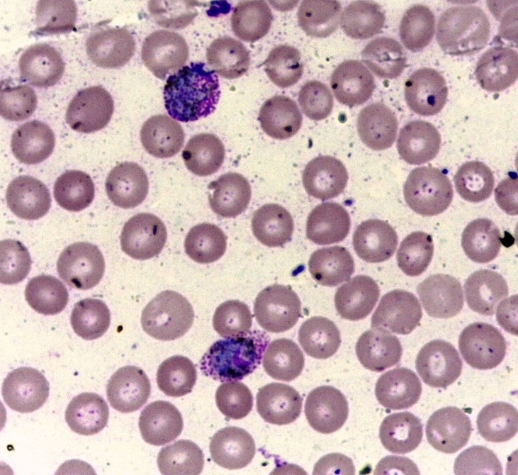 Peripheral smear showing schizont stage of Plasmodium vivax (Leishman stain, 1000X)